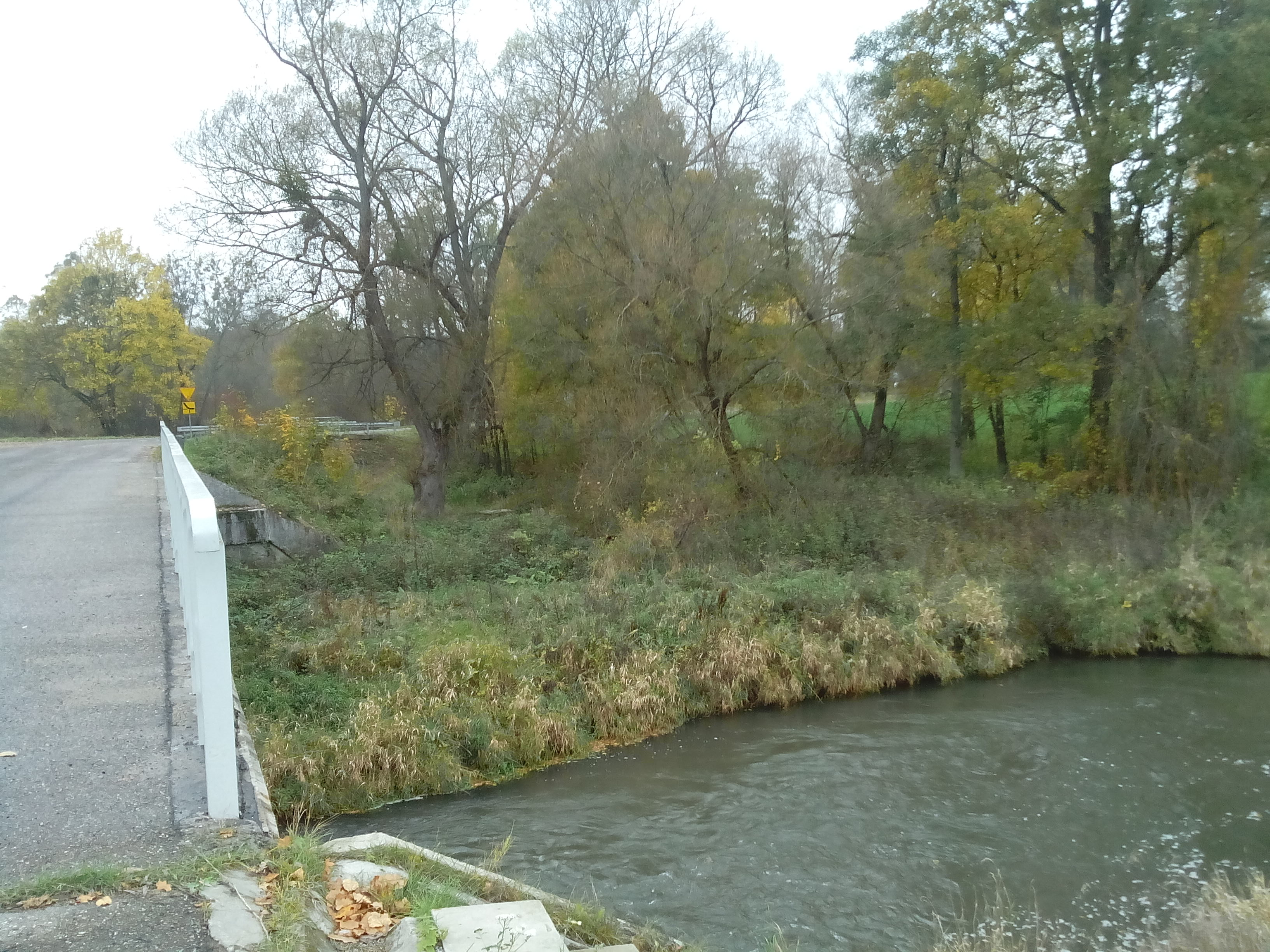 Spędy in 2014 (before 1945 Spanden)